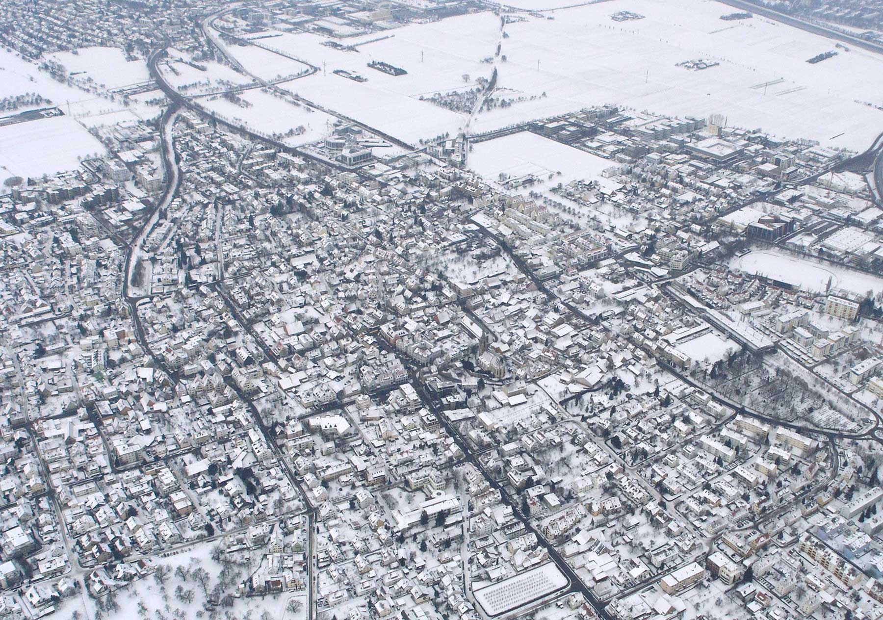 Aerial view of Echterdingen (municipality of Leinfelden-Echterdingen)